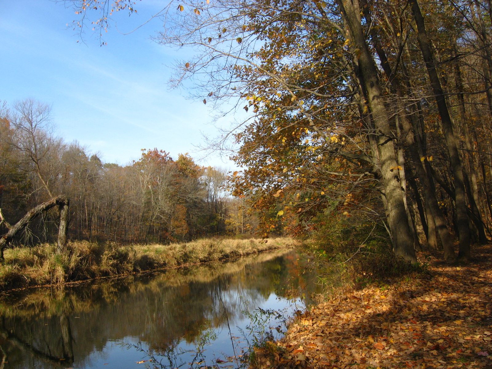 Fall in the Eastern United States